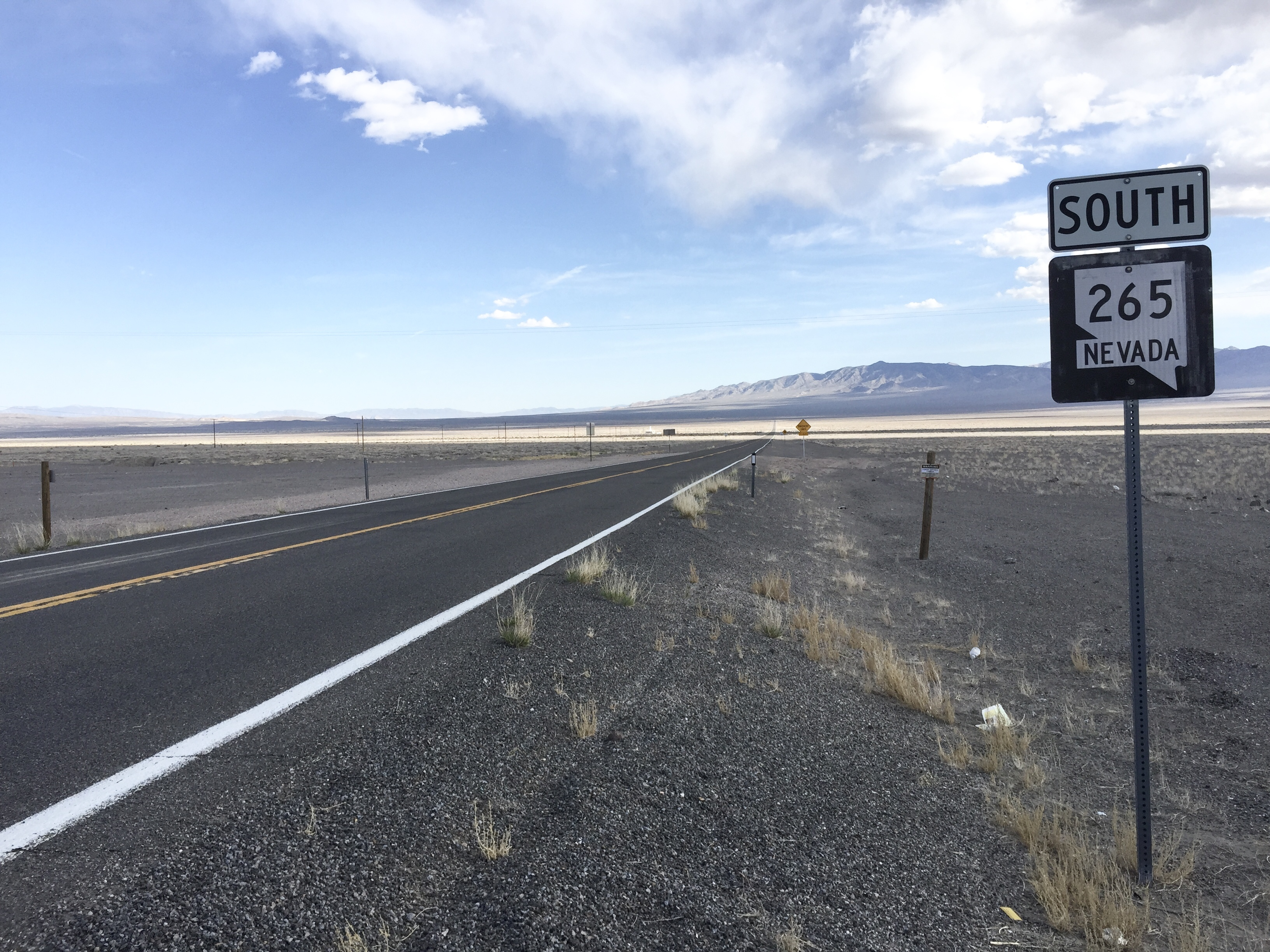 View south from the north end of Nevada State Route 265 (Silver Peak Road) at U.S. Routes 6 and 95 in Esmeralda County, Nevada